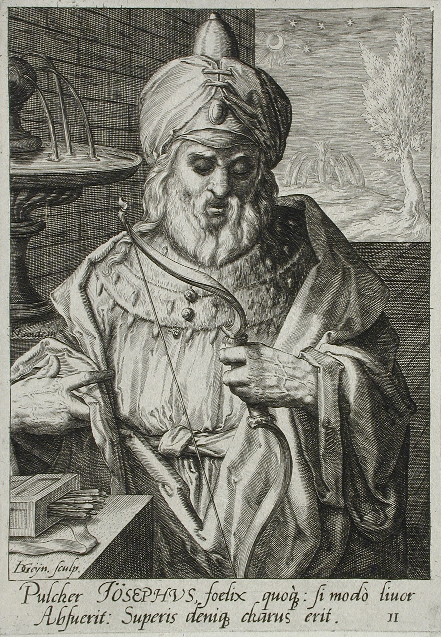 Holland, circa 1590 Series: The Twelve Sons of Jacob, pl. 11 Edition: First edition Prints; engravings Engraving Mary Stansbury Ruiz Bequest (M.88.91.296k) Prints and Drawings